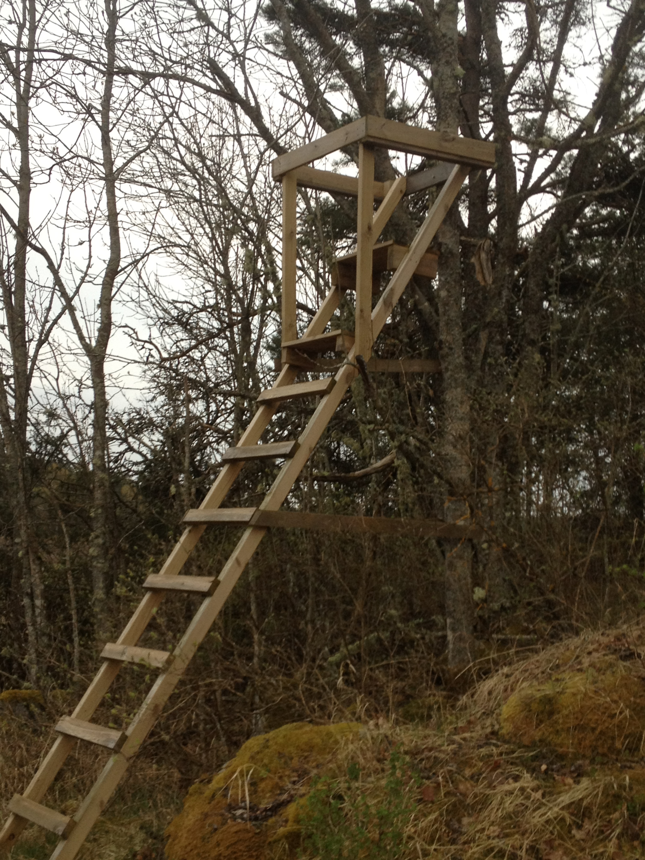 Tree stand in Sweden